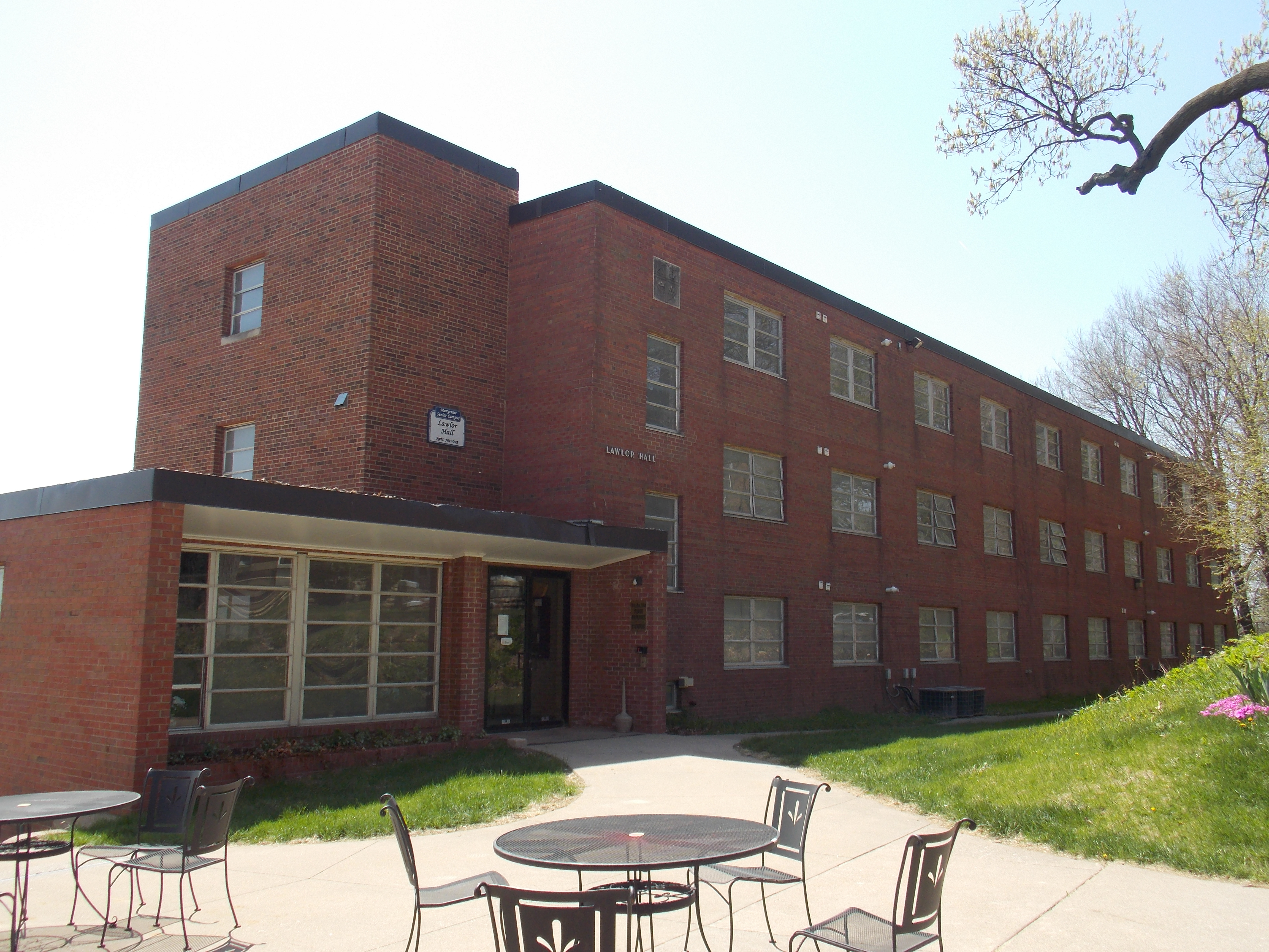 Lawlor Hall on the campus of the former Marycrest College in Davenport, Iowa. The campus forms an historic district on the National Register of Historic Places, and now houses apartments for senior citizens. The building was built in two stages: 1955 and 1959.